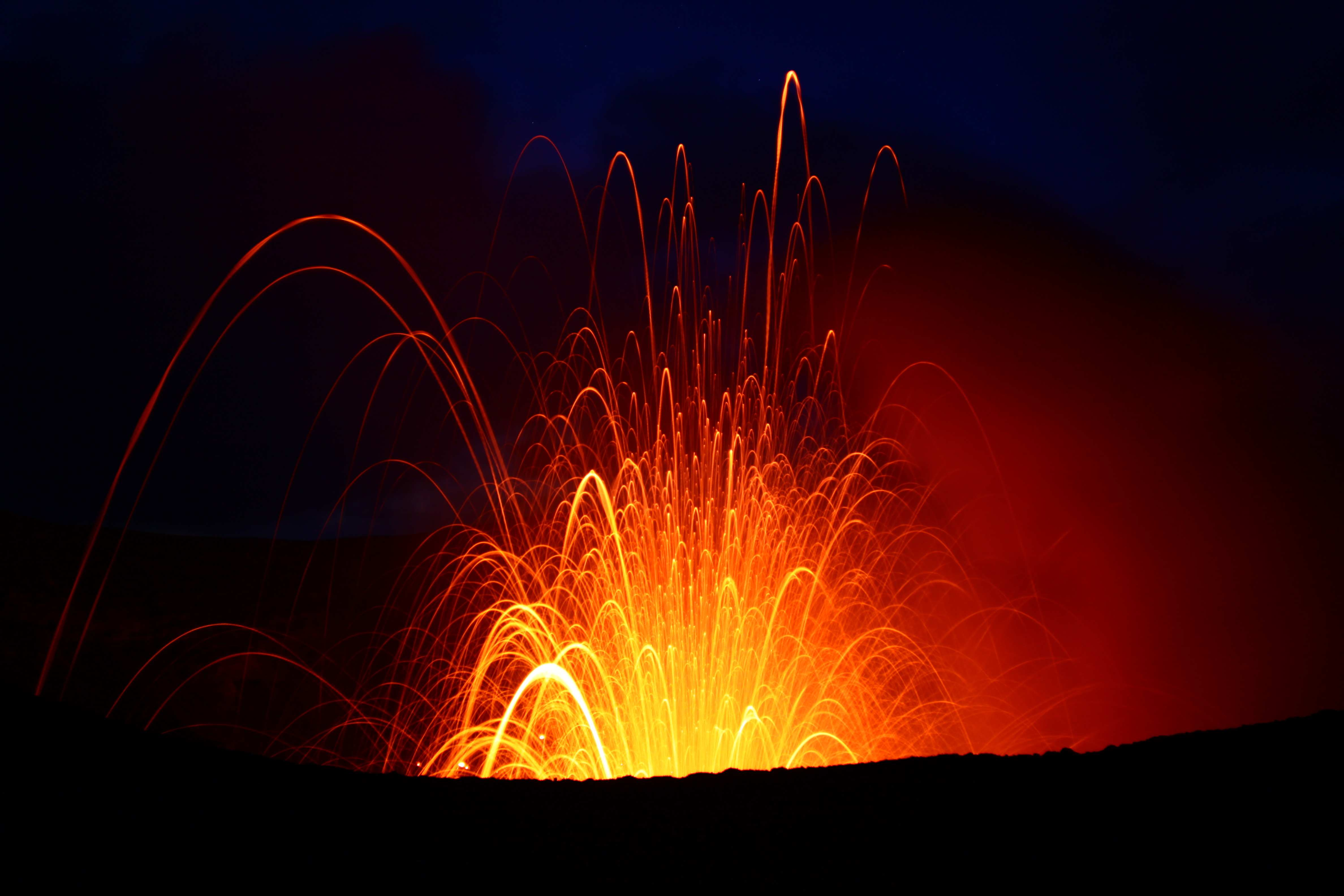 Photo of a volcano on Tanna island Vanuatu